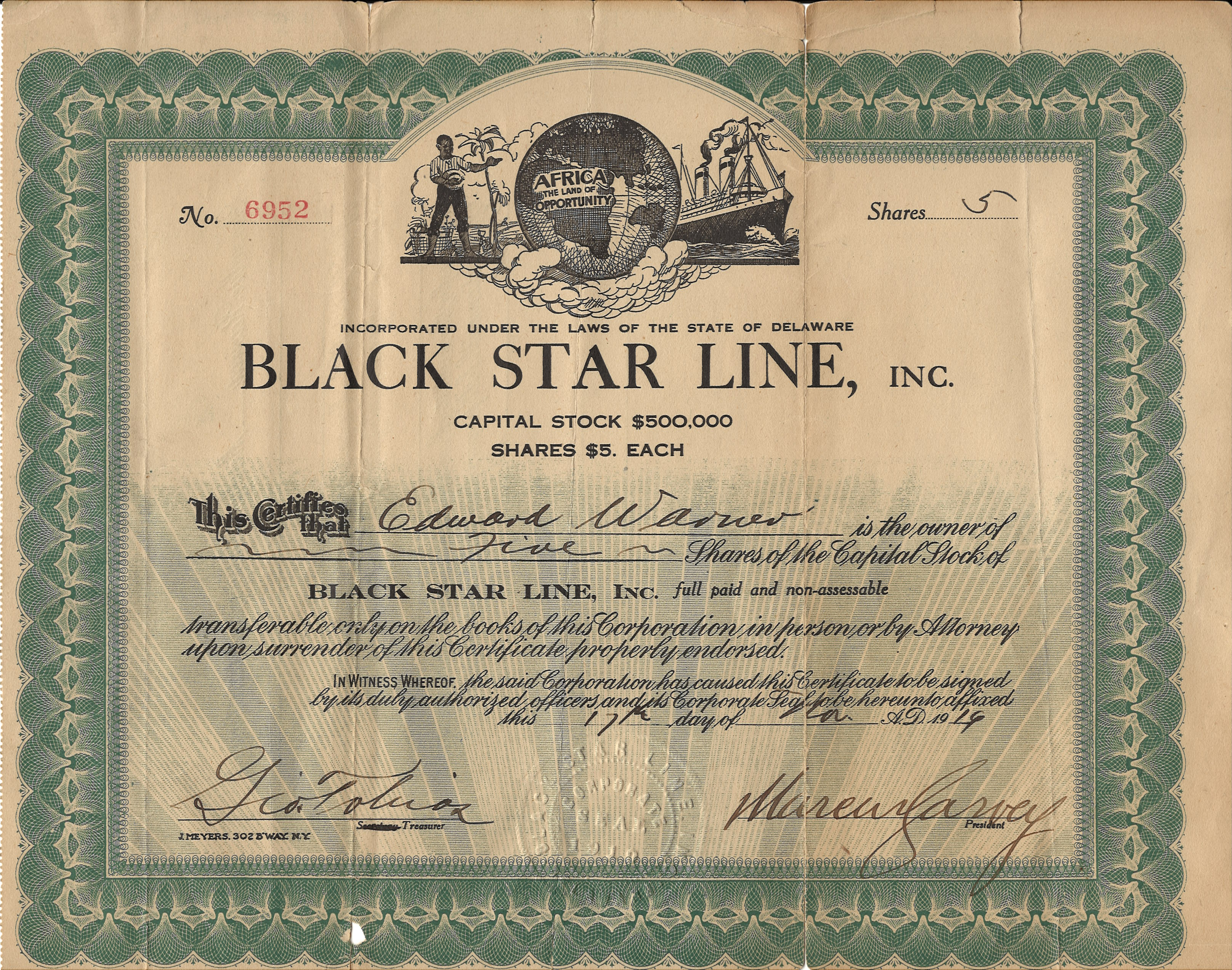 A BSL stock certificate signed by Marcus Garvey and BSL treasurer George Tobias. They sold five shares worth $5 each to Edward Warner on November 17th, 1916.